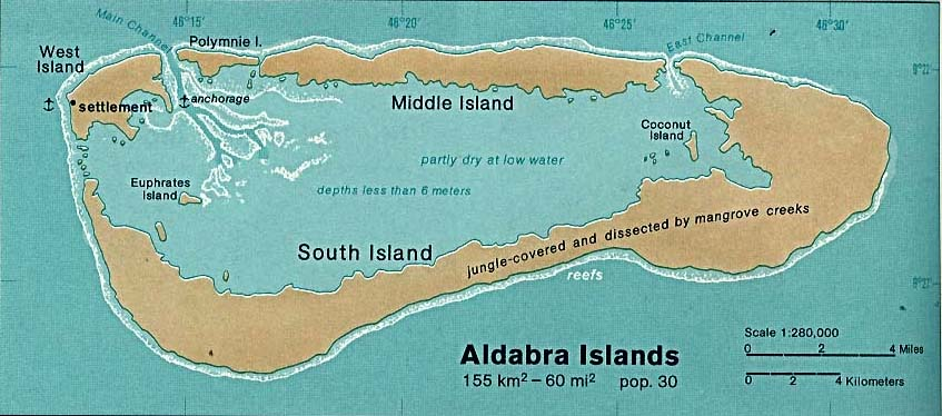 Map of Aldabra Atoll, Outer Islands of Seychelles